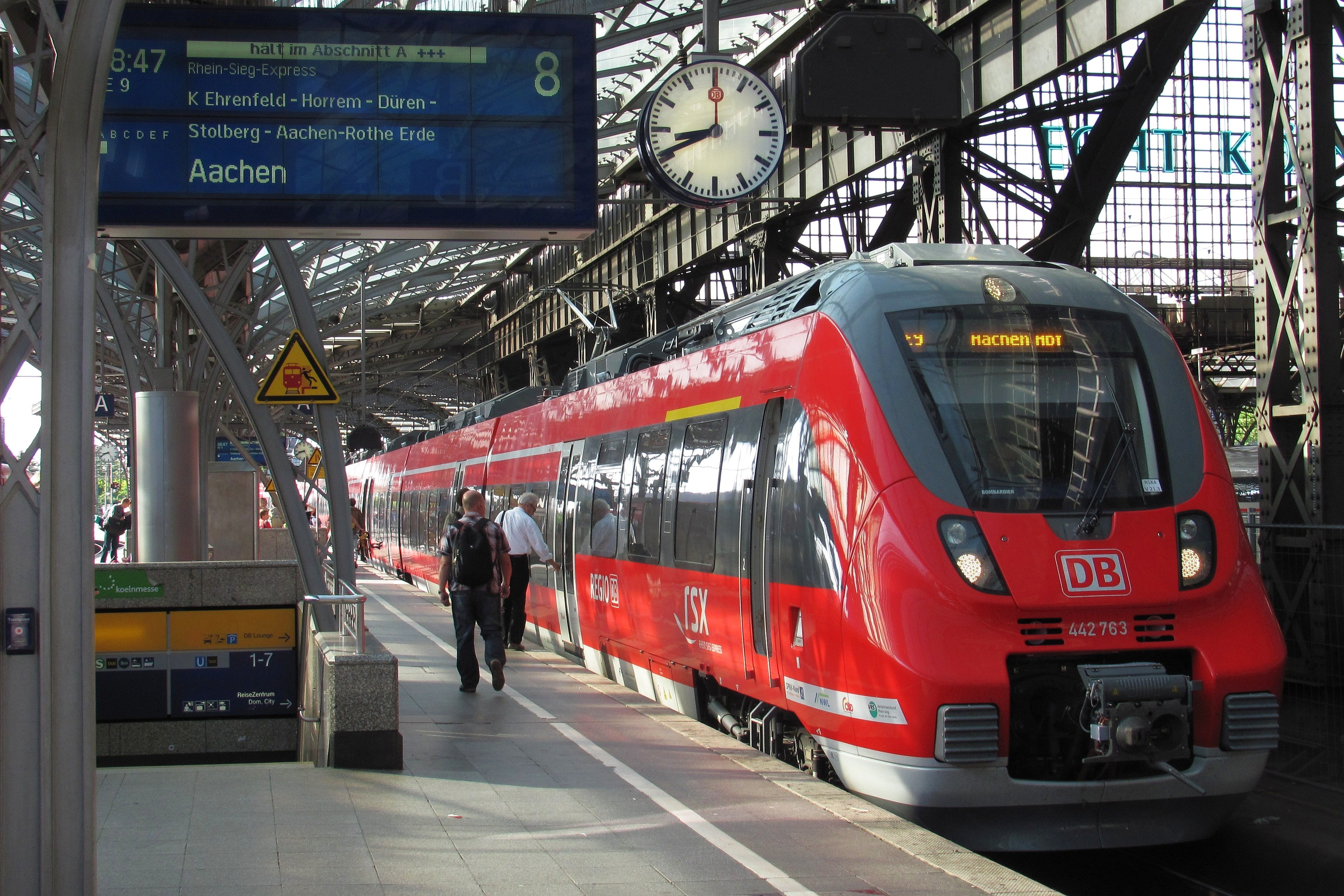 Talent 2 at Cologne Central Station going to Aachen.